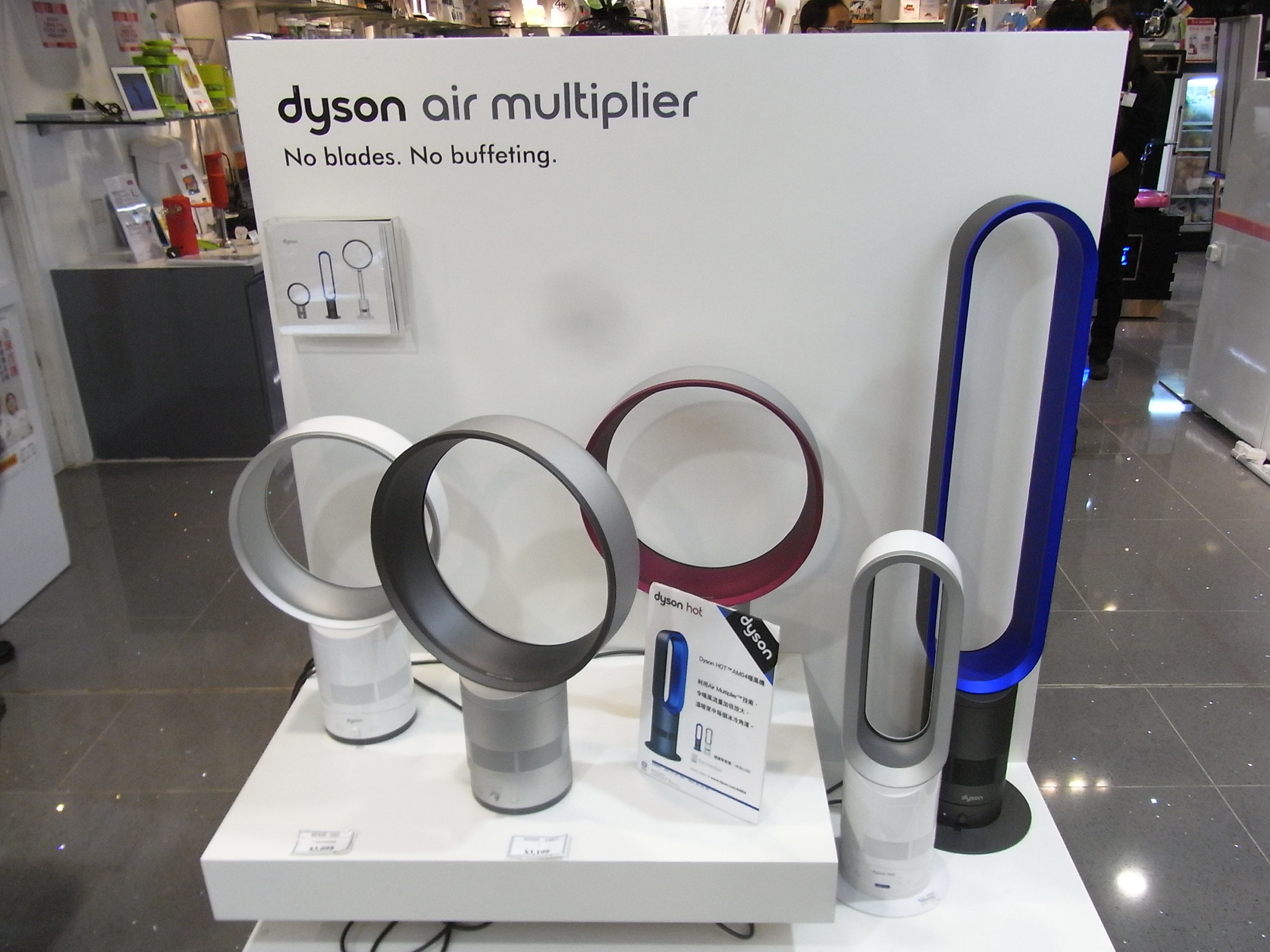 香港崇光百貨, SOGO Department Store, East Point Centre, Causeway Bay, Hong Kong